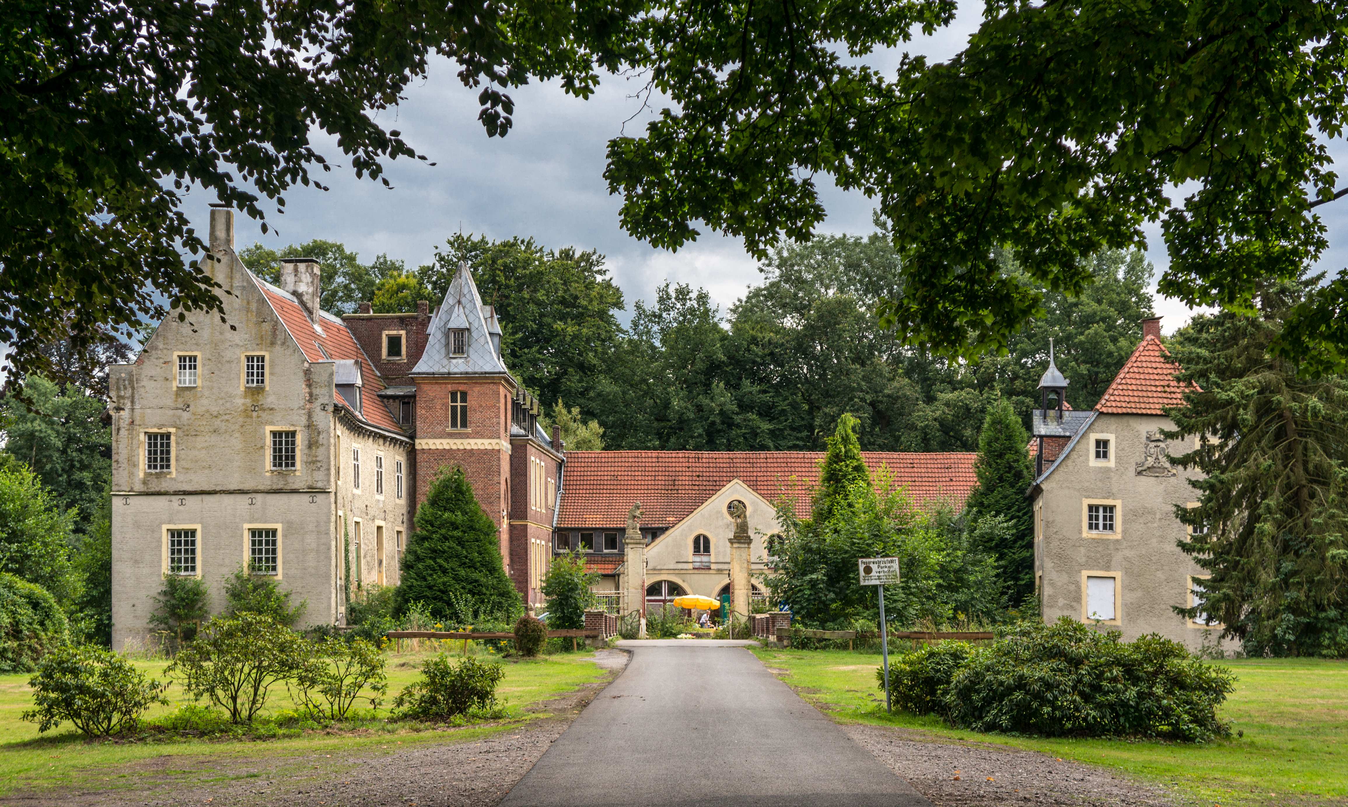 Castle of Senden, North Rhine-Westphalia, Germany This image shows a heritage building in Germany, located in the North Rhine-Westphalian city Senden (Westfalen) (no. 02-04).